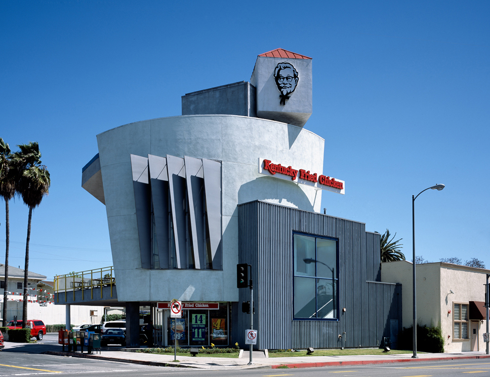 Two-story KFC in Los Angeles.